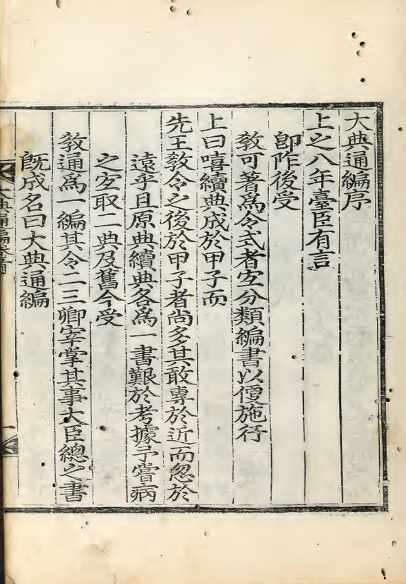 Daejeontongpyeon is the law of Joseon dynasty issued at 1785 by Jeonjo.